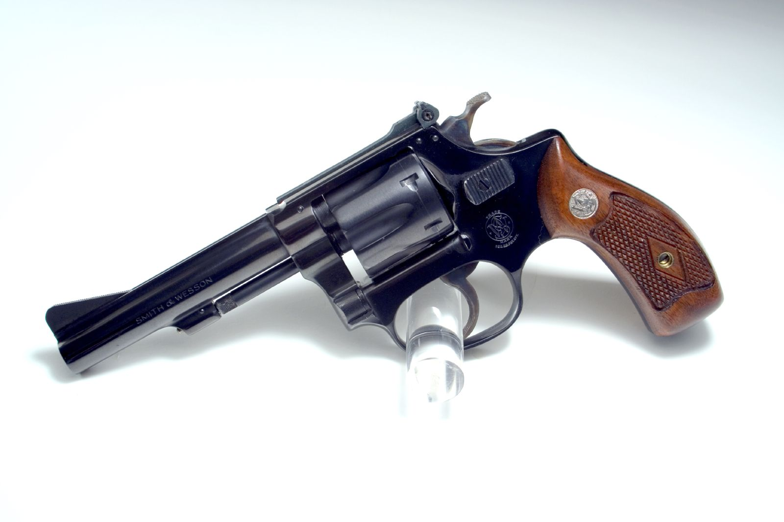 Smith & Wesson .22/.32 Kit Gun 5 Screw Flat Latch